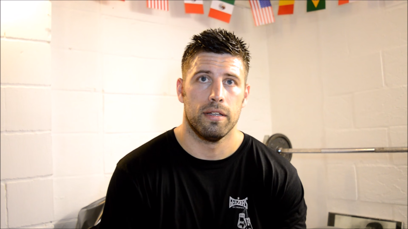 Sam Sexton (a heavyweight boxer from England) during an interview in 2015.